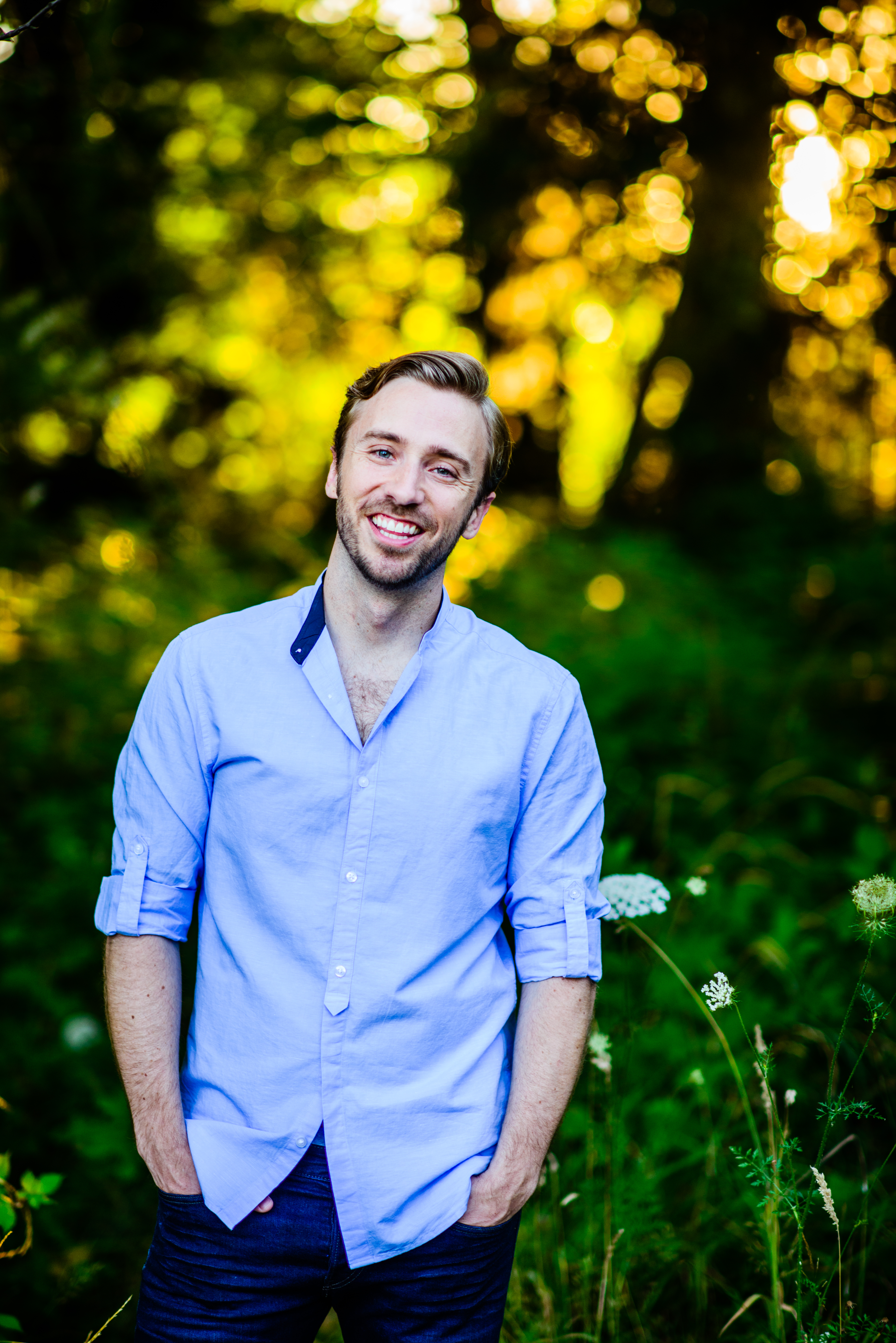 Peter Hollens, American pop singer-songwriter-producer and youtube artist